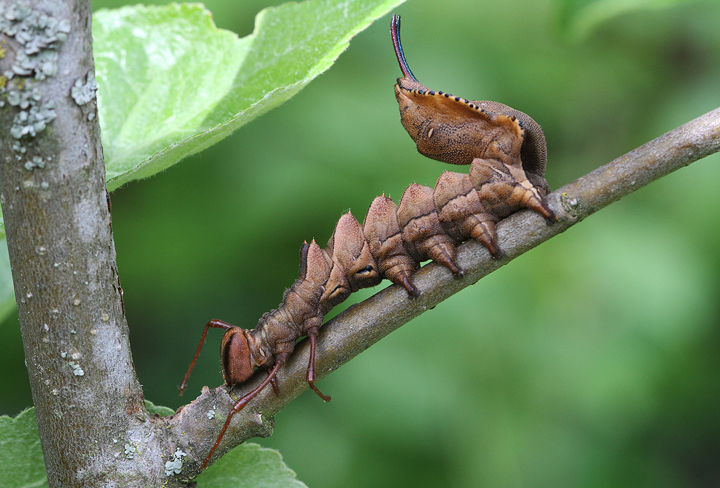 Caterpillar of the Lobster Moth (Stauropus fagi)